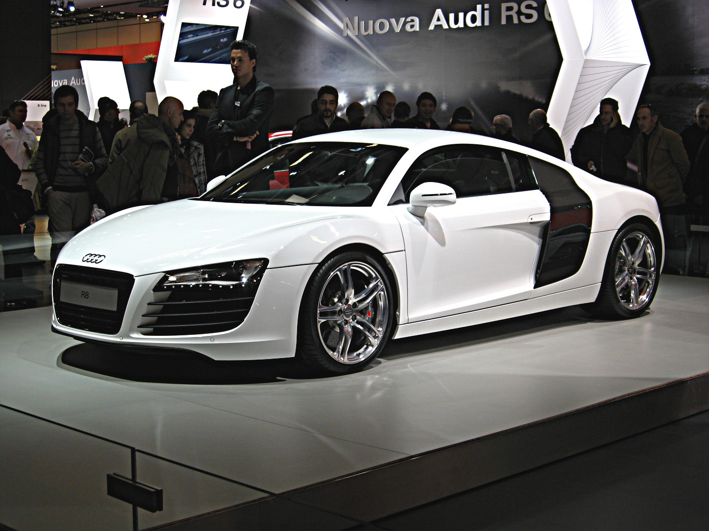 Subject:Audi R8 Author:Luc106 Date:December 13th, 2007 Event:Motor Show Bologna 2007 Place/Country: Bologna, Italy I release all rights in the public domain.